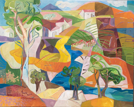 Painting by Georg Königstein